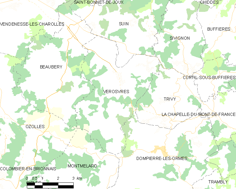 Map of French municipality